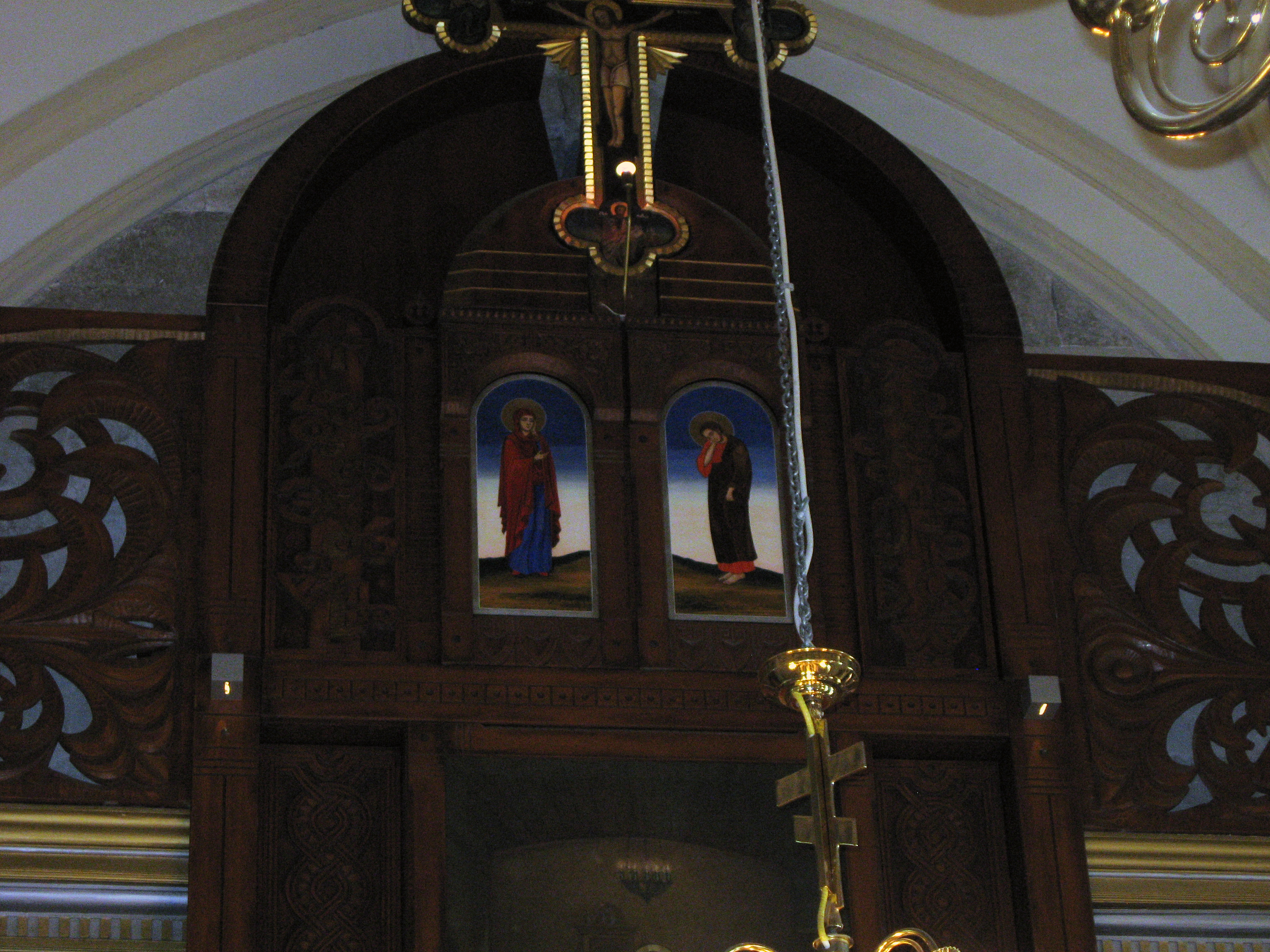 Church of the Assumption, Uzundzhovo, Bulgaria